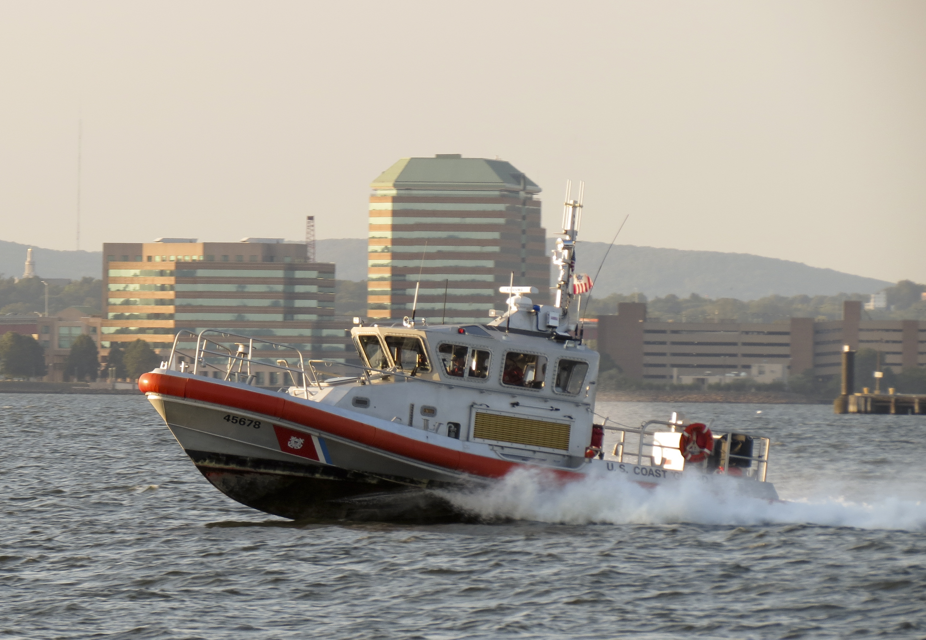 A USCG Medium Response Boat - Responding to an emergency from its base in New Haven, CT